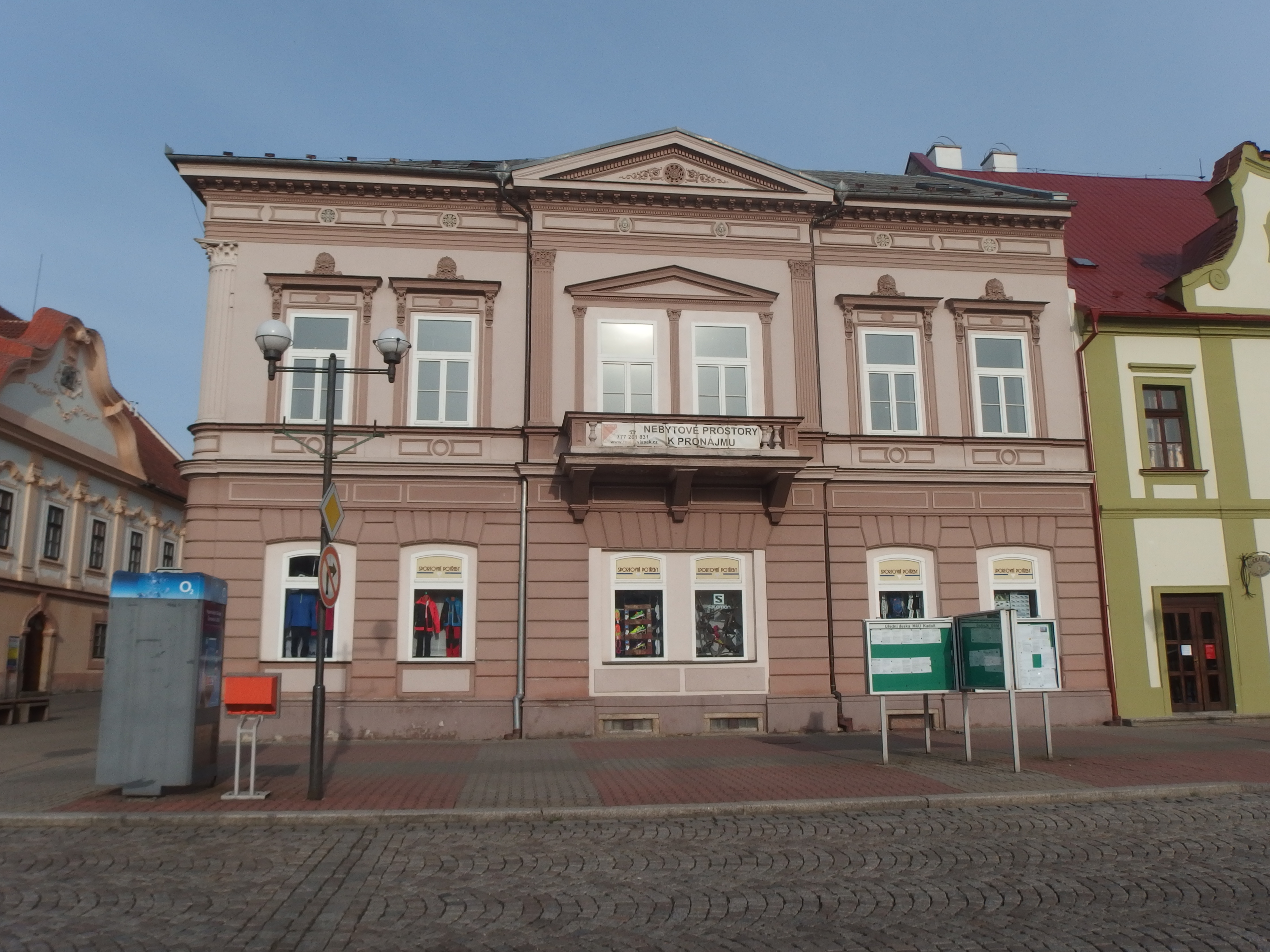 Kadaň, Chomutov District, Czech Republic. Mírové náměstí square.